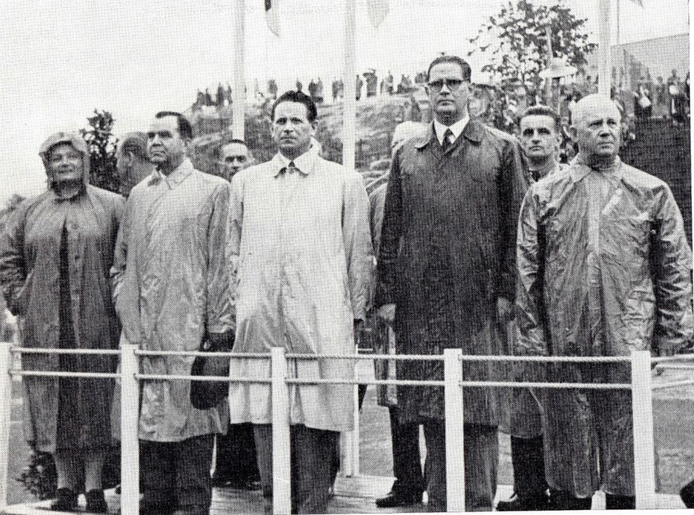 Finnish sport organization leaders SVUL in Helsinki 1956 - sport festival opening ceremonies - leaders from left: Liisa Orko, J.W.Rangell, Kauno Kleemola, Akseli Kaskela, and Yrjö Valkama.are receiving SVUL athletes parade